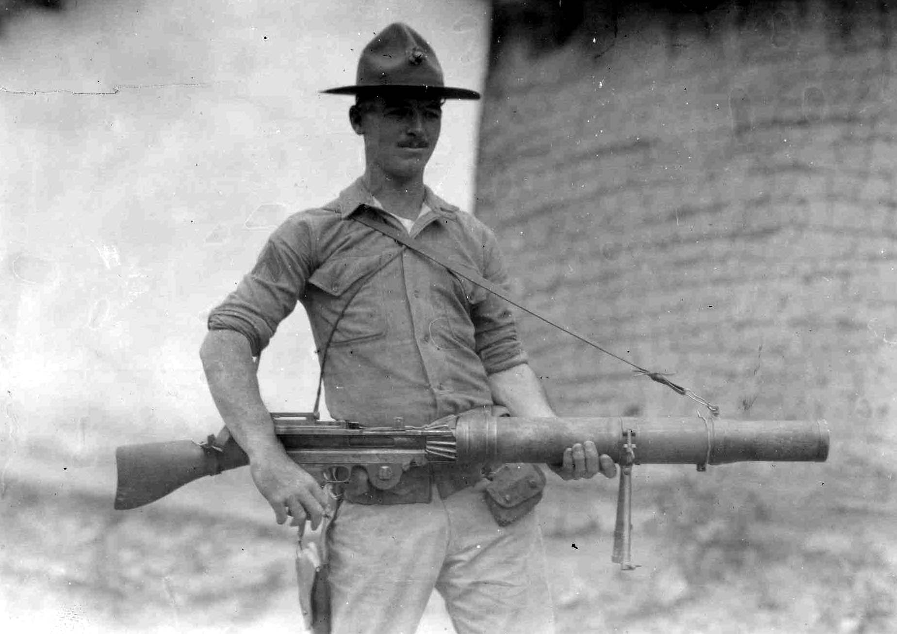 Lewis machine gun captured from bandits at El Chufon by the 52d Co., 11th Regt on 19 Oct 1928 in Nicaragua. The Marine holding the gun is Cpl Martin F. O’Donnell.